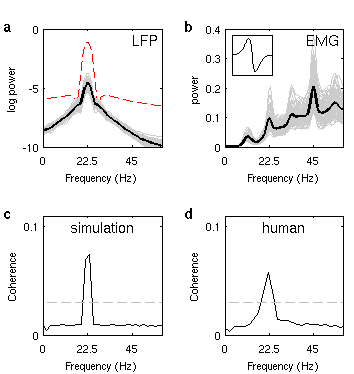 A comparison of simulated corticomuscular coherence with human physiology.[1]